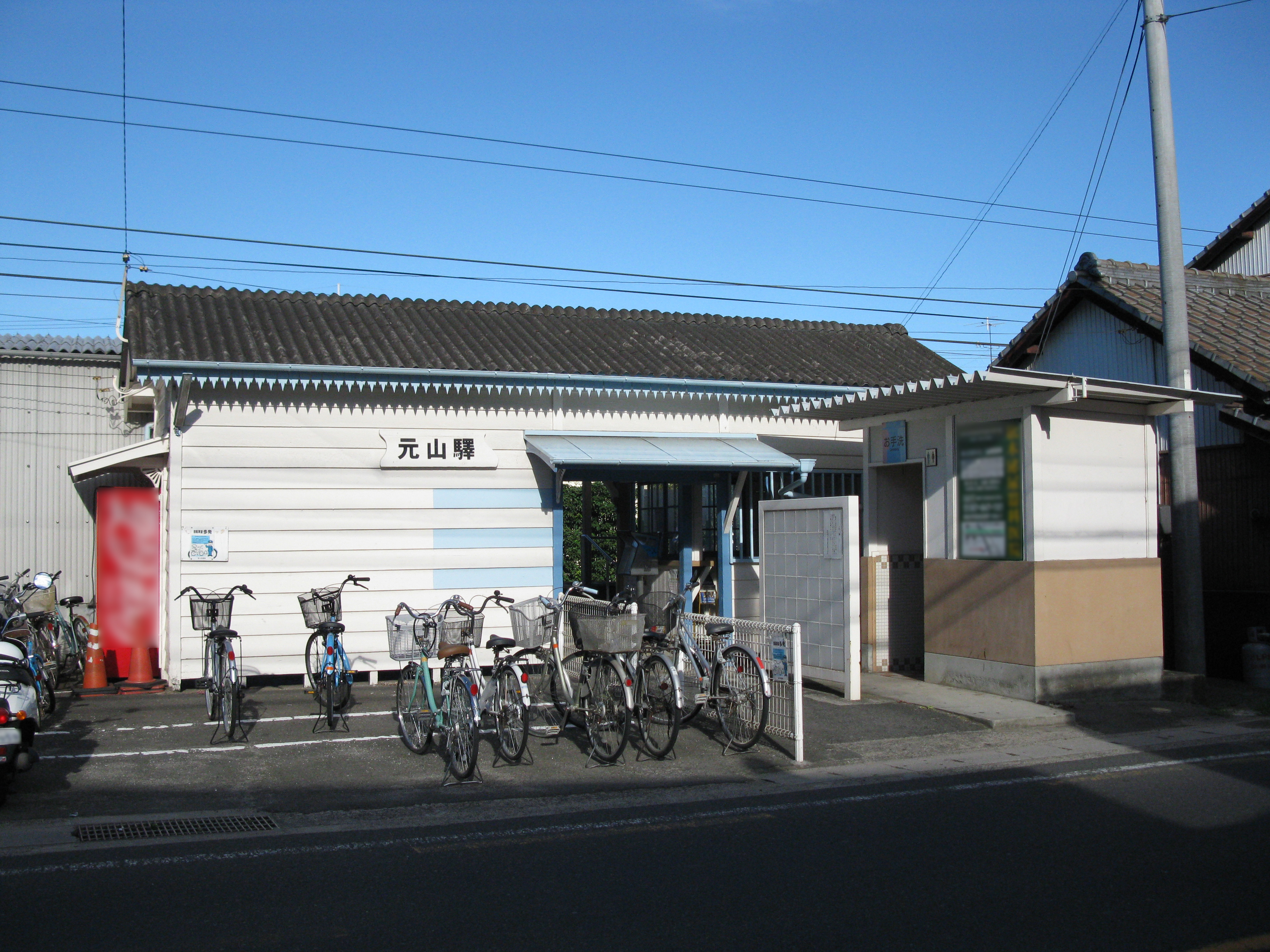 Motoyama Station building (Takamatsu-Kotohira Electric Railroad(Kotoden) Nagao Line)